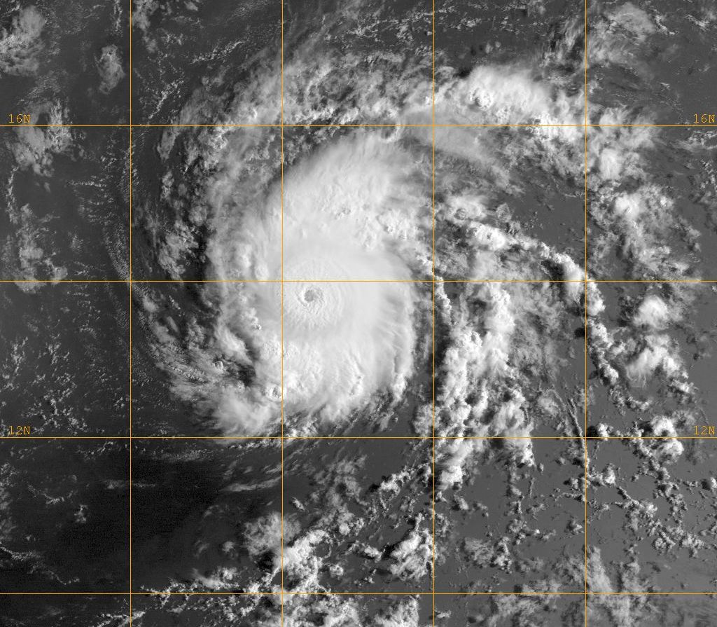 Hurricane Danny near its peak intensity on August 21, 2015 over the tropical North Atlantic Ocean.